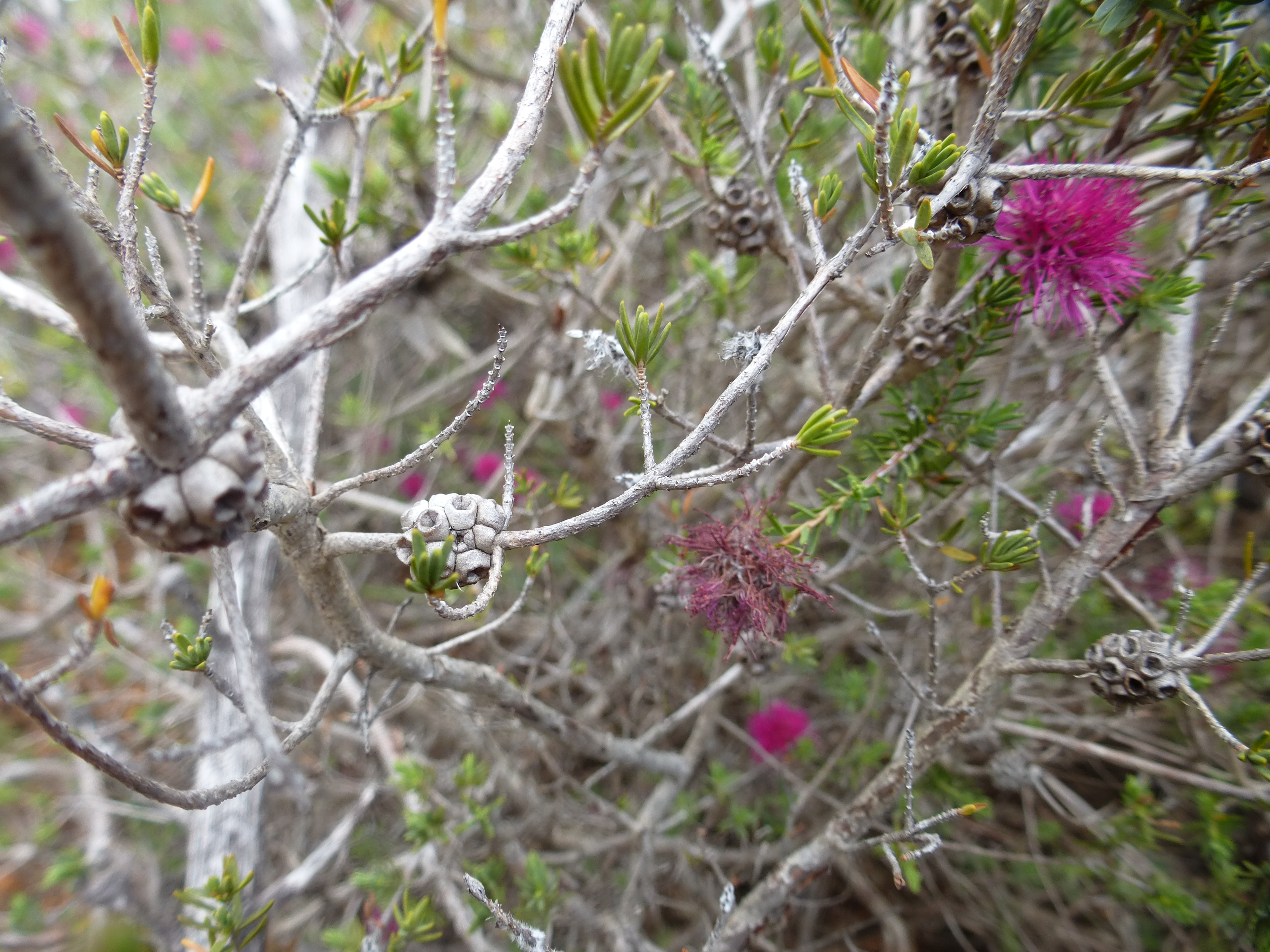 Beaufortia pupurea in the Morangup Nature Reserve near Toodyay